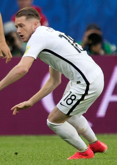 Yuri Zhirkov Kip Colvey Michael Boxall